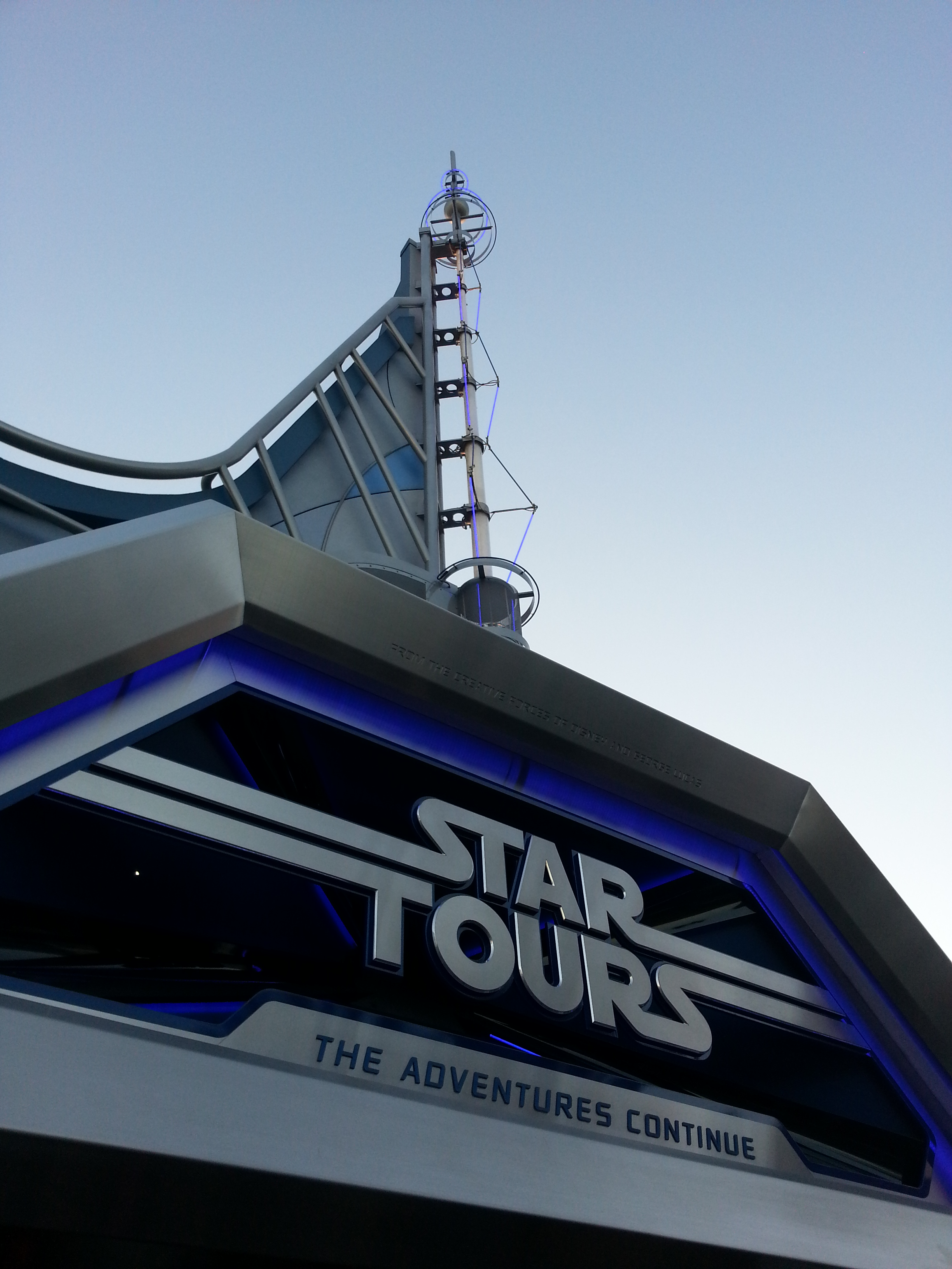 Photo of the entrance of the Star Tours - The Adventures Continue attraction at Disneyland.